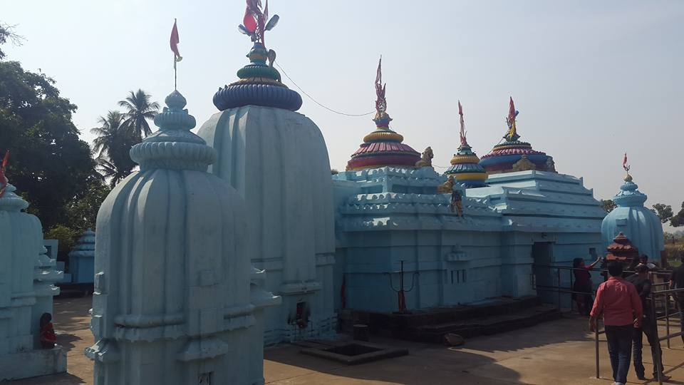 Temple dedictaed to god Shiva in Champeswar, Narasingpur